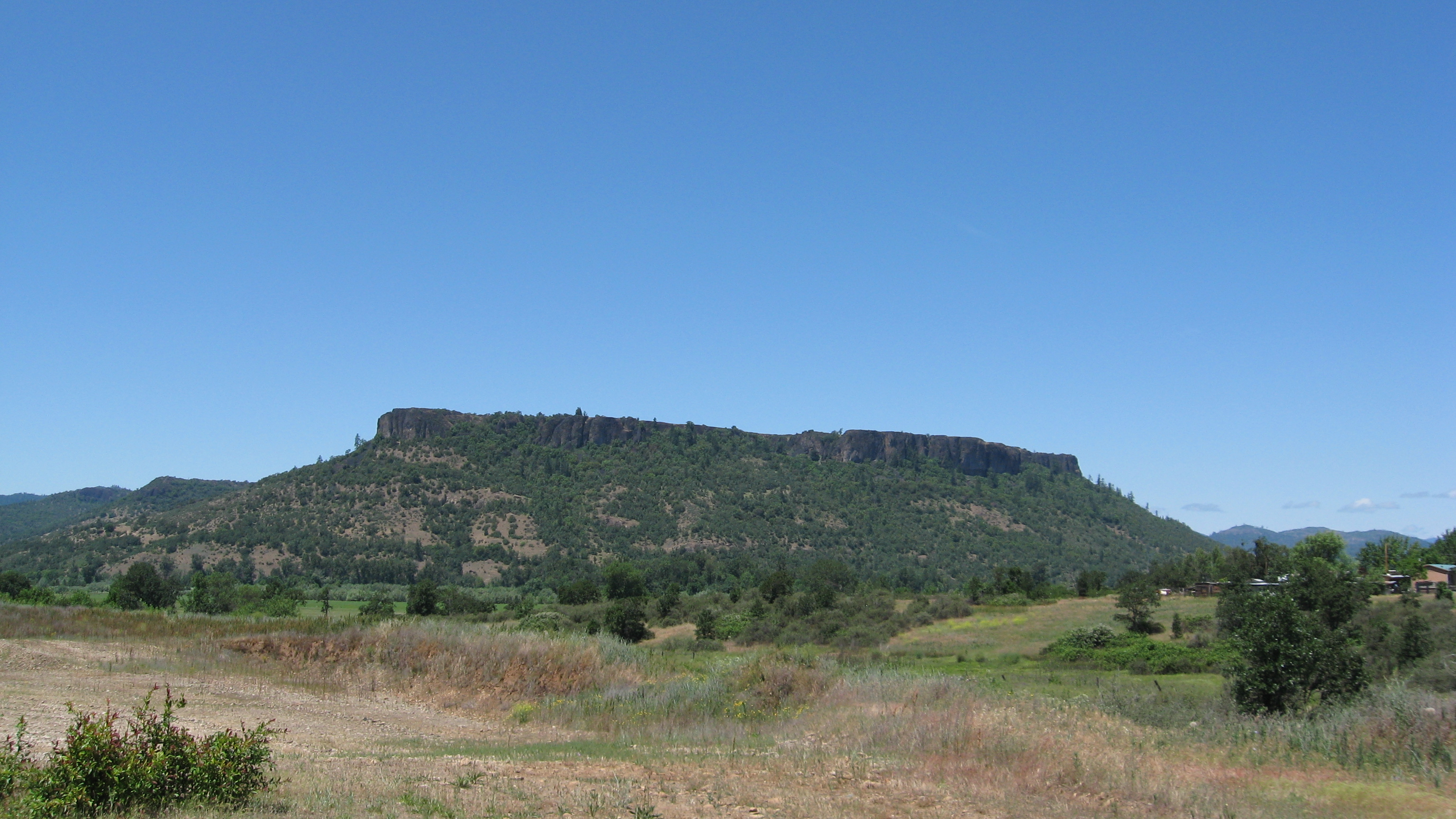 I took this picture myself from just off of Kirtland Road, south of Lower Table Rock. The coordinates are approximately 42°25′45″N 122°56′04″W / 42.4291°N 122.9345°W